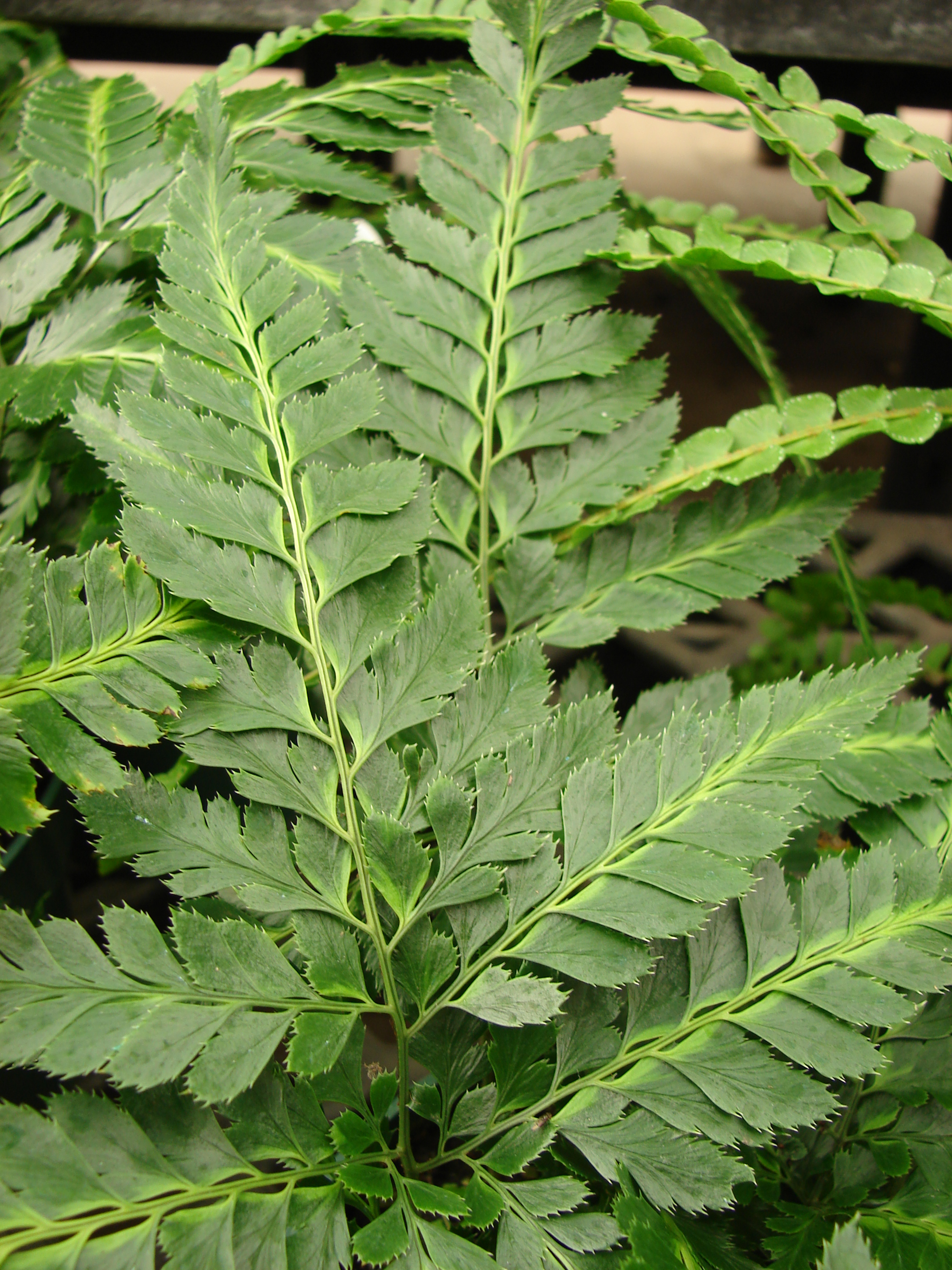 Arachniodes simplicior (Variegata habit). Location: Maui, Walmart Kahului